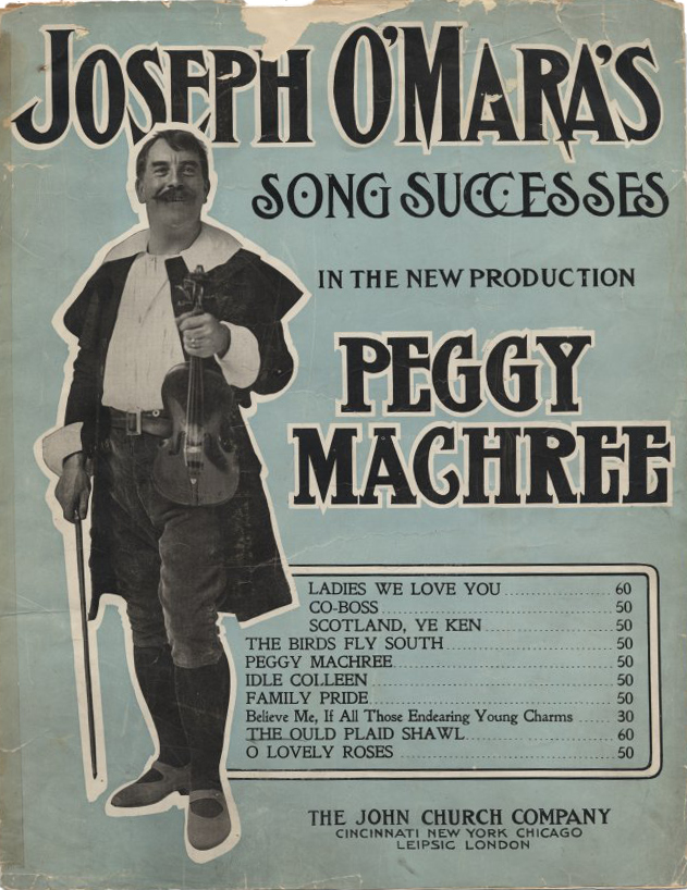 Sheet music cover of Joseph O'Mara's Song Successes in the new production Peggy Machree with songs by Francis Arthur Fahy (1854–1935) and Clarence Lucas (1866–1947). Published in Cincinnati, Ohio, in 1908.